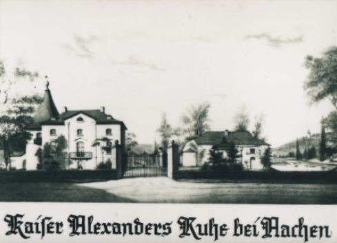 Kaisersruh Manor near Aachen